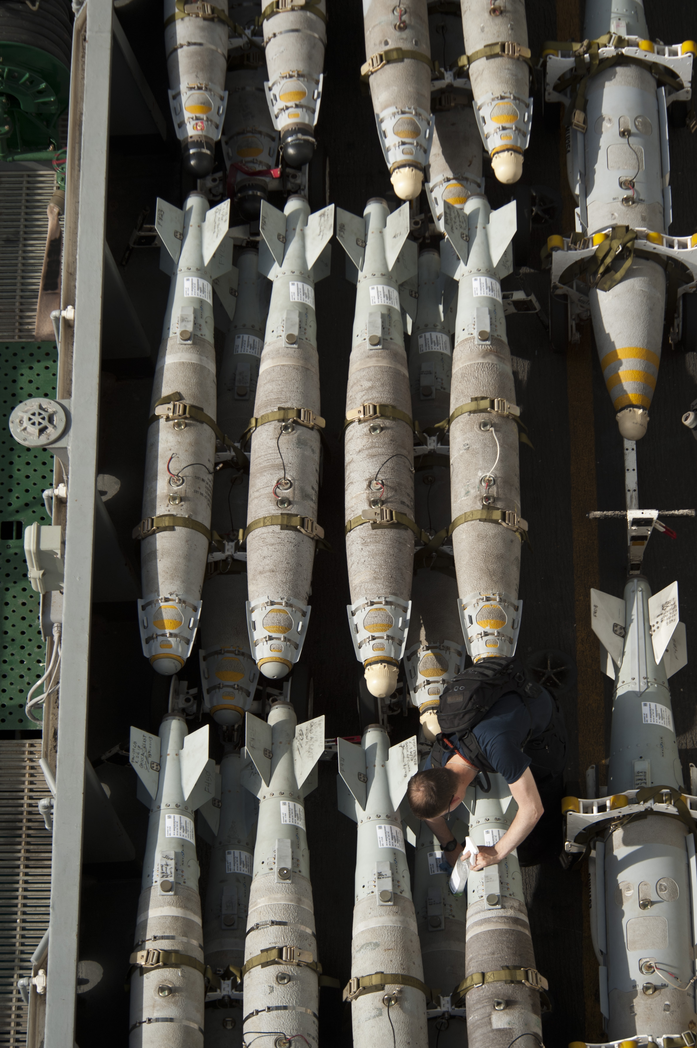 GULF OF OMAN (June 22, 2013) A Sailor maintains and cleans ordnance aboard the aircraft carrier USS Nimitz (CVN 68). The Nimitz Carrier Strike Group is deployed to the U.S. 5th Fleet area of responsibility conducting maritime security operations, theater security cooperation efforts and support missions for Operation Enduring Freedom. (U.S. Navy photo by Mass Communication Specialist 3rd Class Raul Moreno Jr./Released) 130622-N-LP801-007